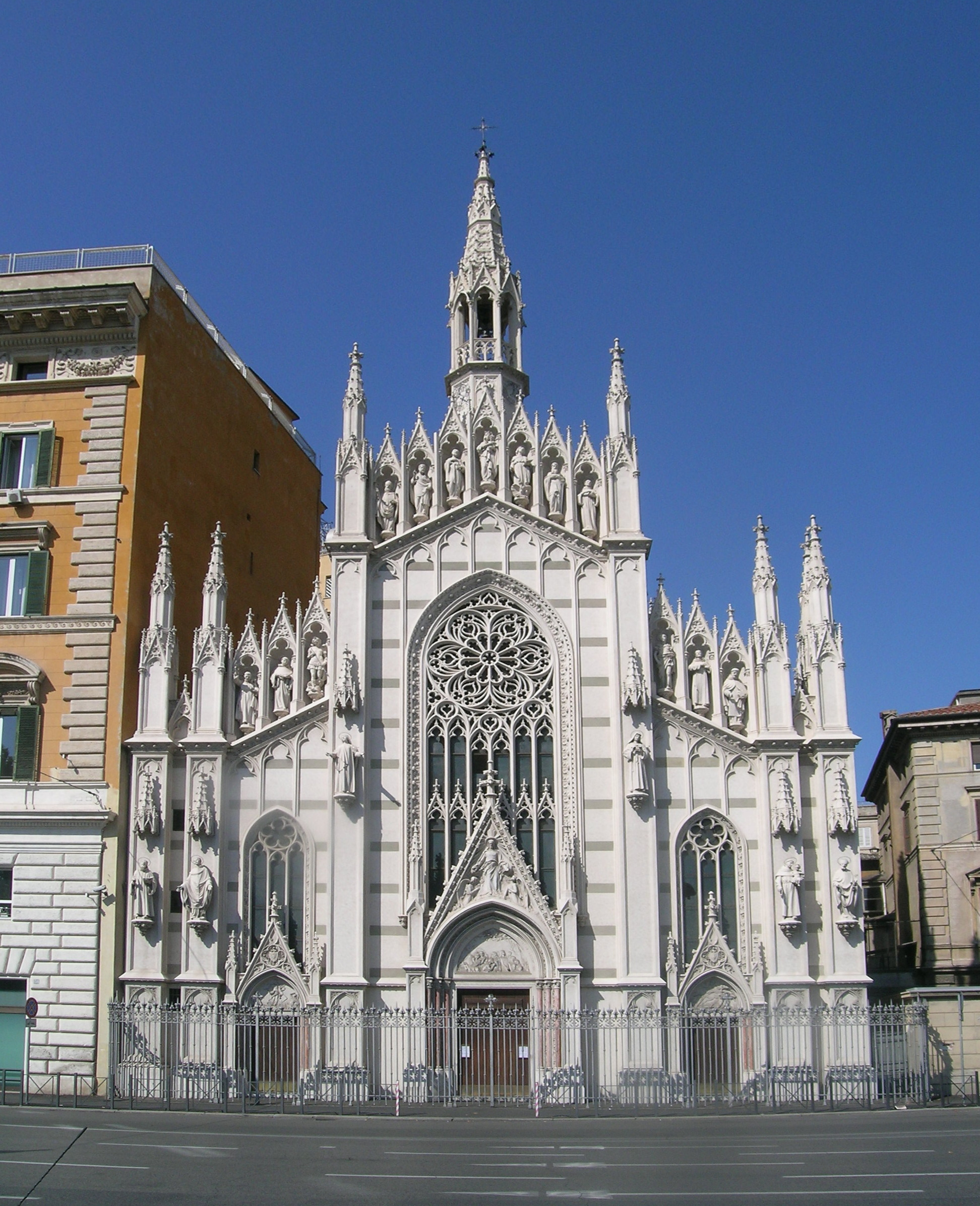 view of the front of the church of Sacro Cuore del Suffragio, in Rome, Italy. I post-processed it with Gimp to invert some of the perspective